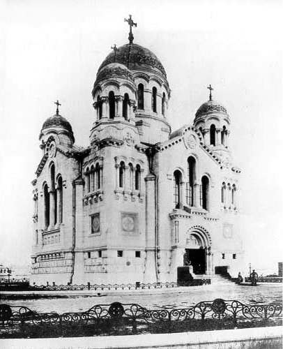 Ascension Church in Ivanovo, design by Fyodor Schechtel (d. 1926), 1898-1903. Demolished in 1937.